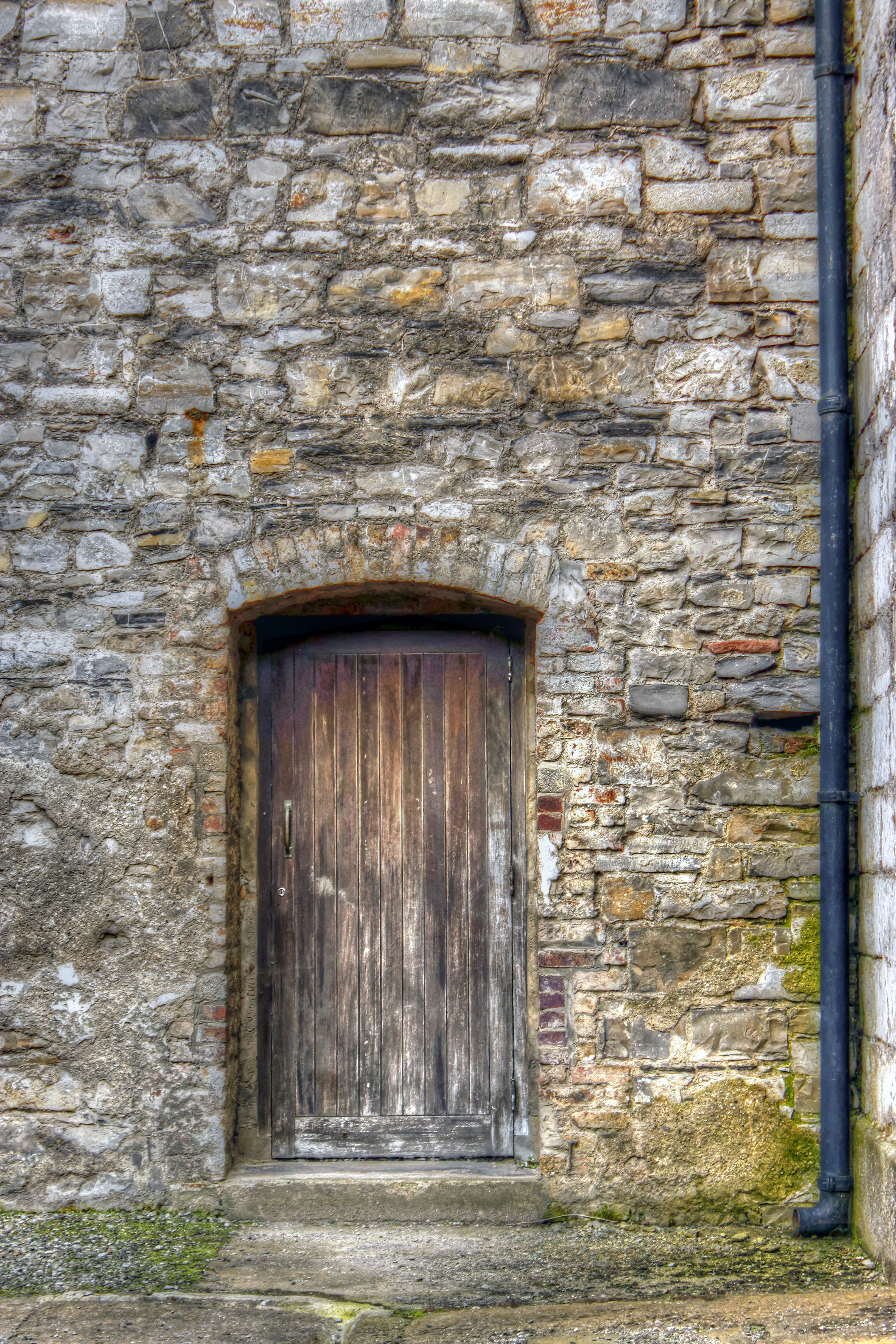 Kilmainham GaolGaeilge: Príosún Chill Mhaighneann